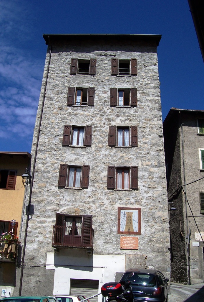 Tower, Sonico, Val Camonica